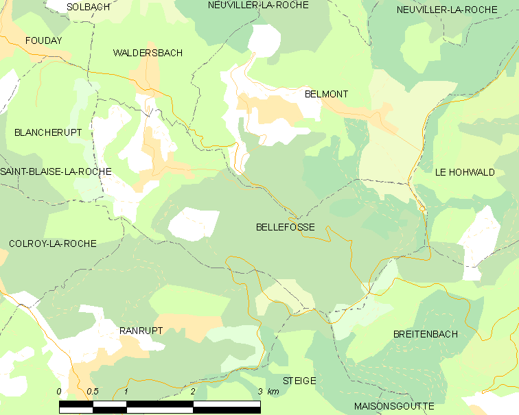 Map of French municipality